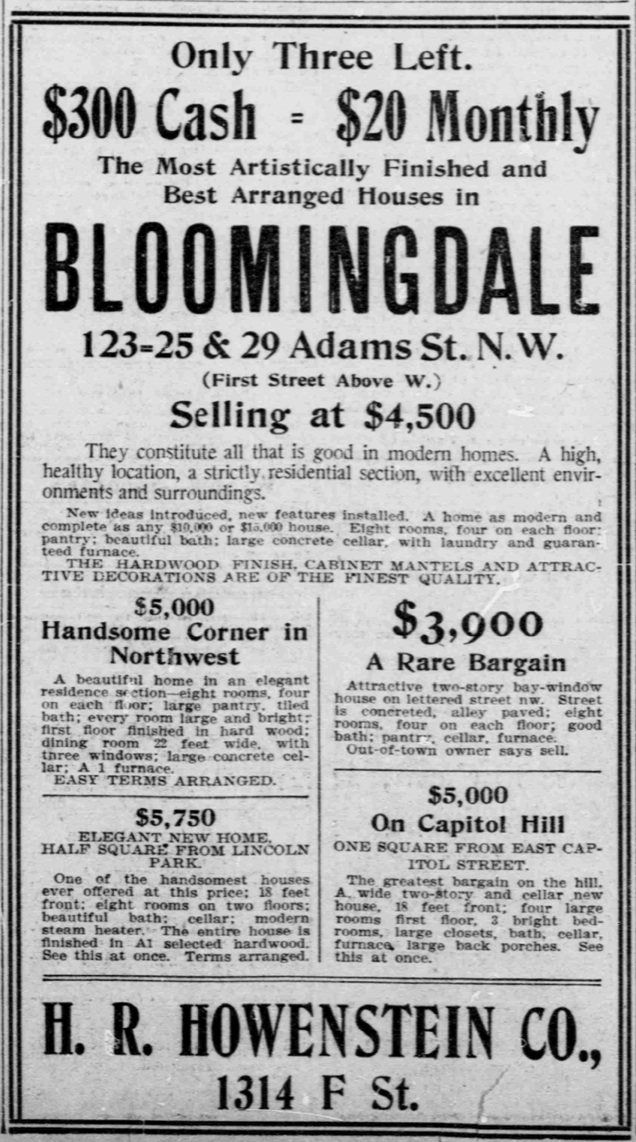 Bloomingdale Home for $300 Cash and $20 Monthly.jpg